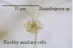 Knobby auxiliary cells from a Scutellospora sp.